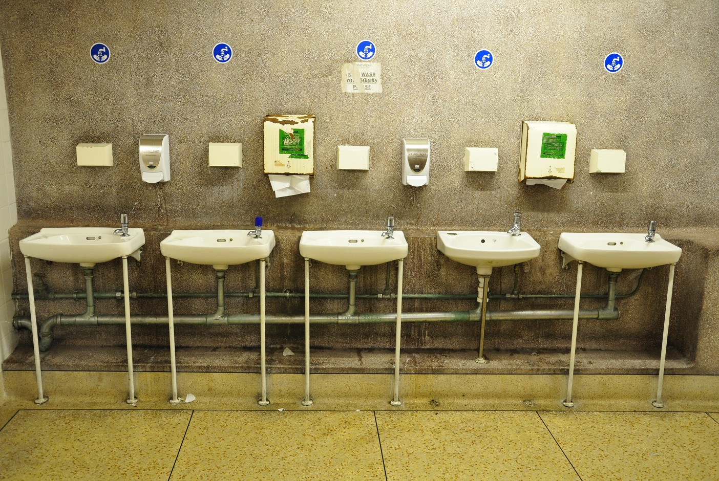 Sinks in the public toilet of the Castle Terrace Parking Garage in Edinburgh, Scotland